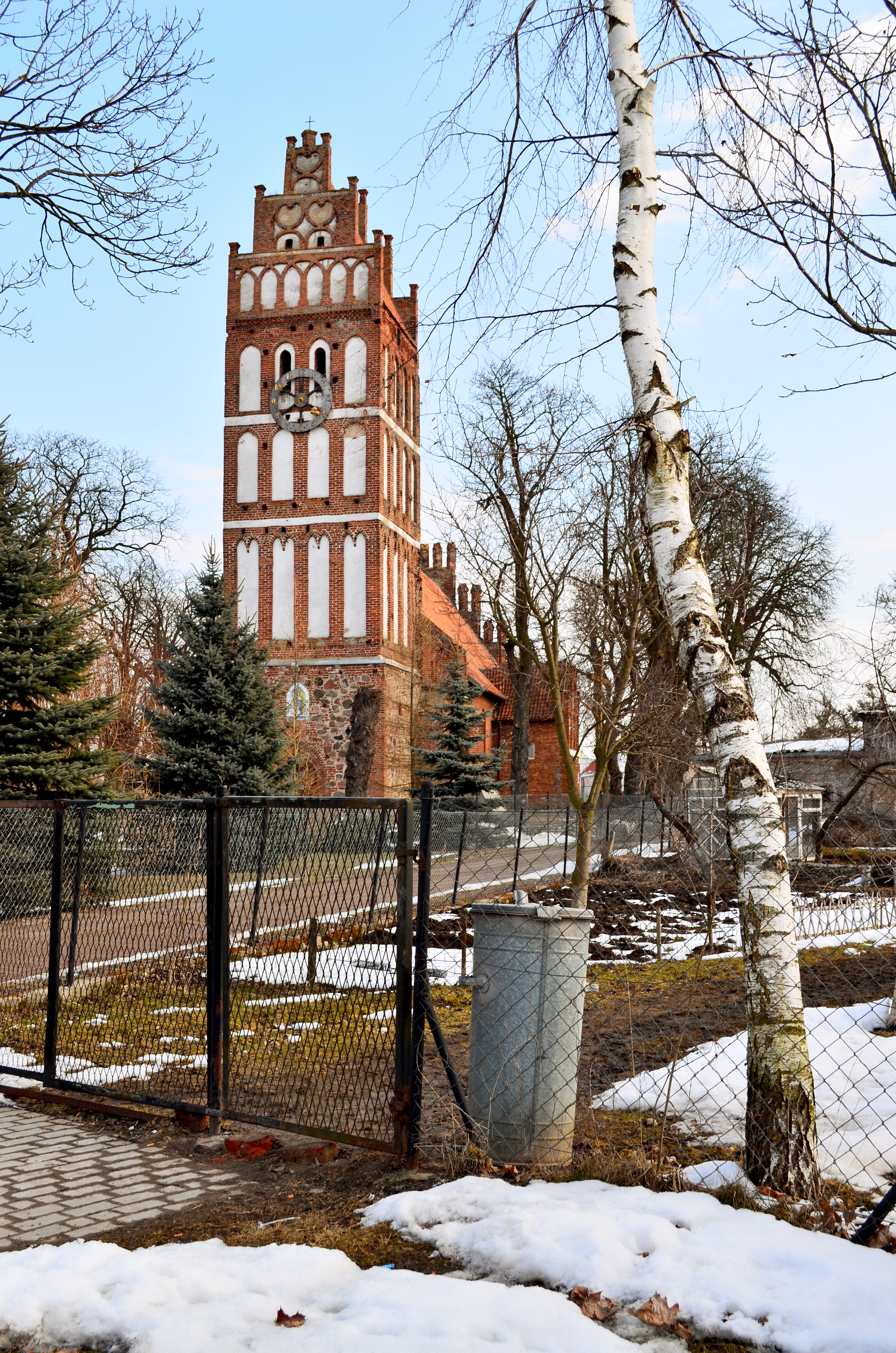 Saint John the Baptist church in Łankiejmy, Poland